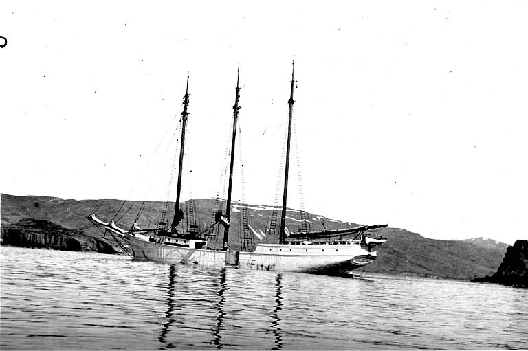 On verso of image: Ship Golden State In Folder 134 Subjects (LCTGM): Fishing industry--Alaska--Unga Island Subjects (LCSH): Golden State (Schooner); Schooners--Alaska--Unga Island; Fisheries--Alaska--Unga Island